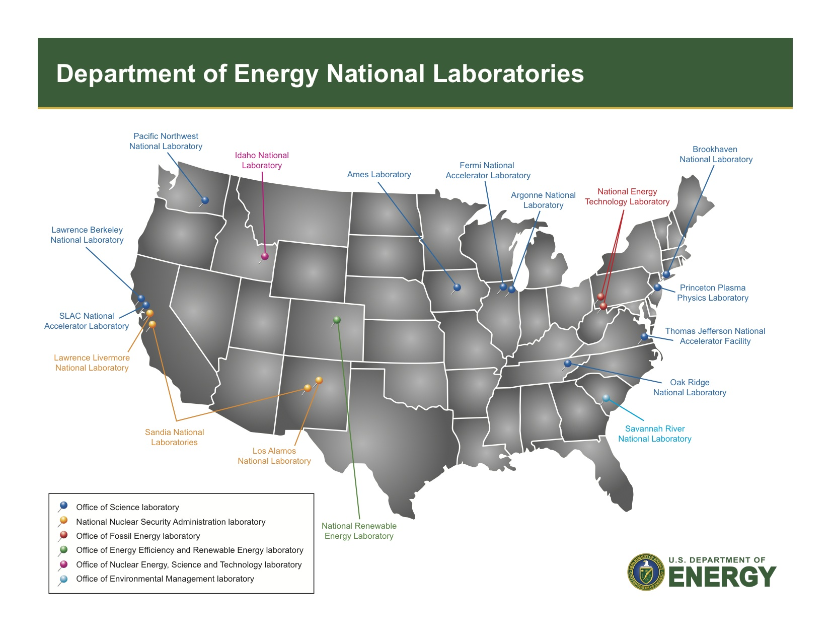 Map of U.S. Department of Energy's national laboratories.